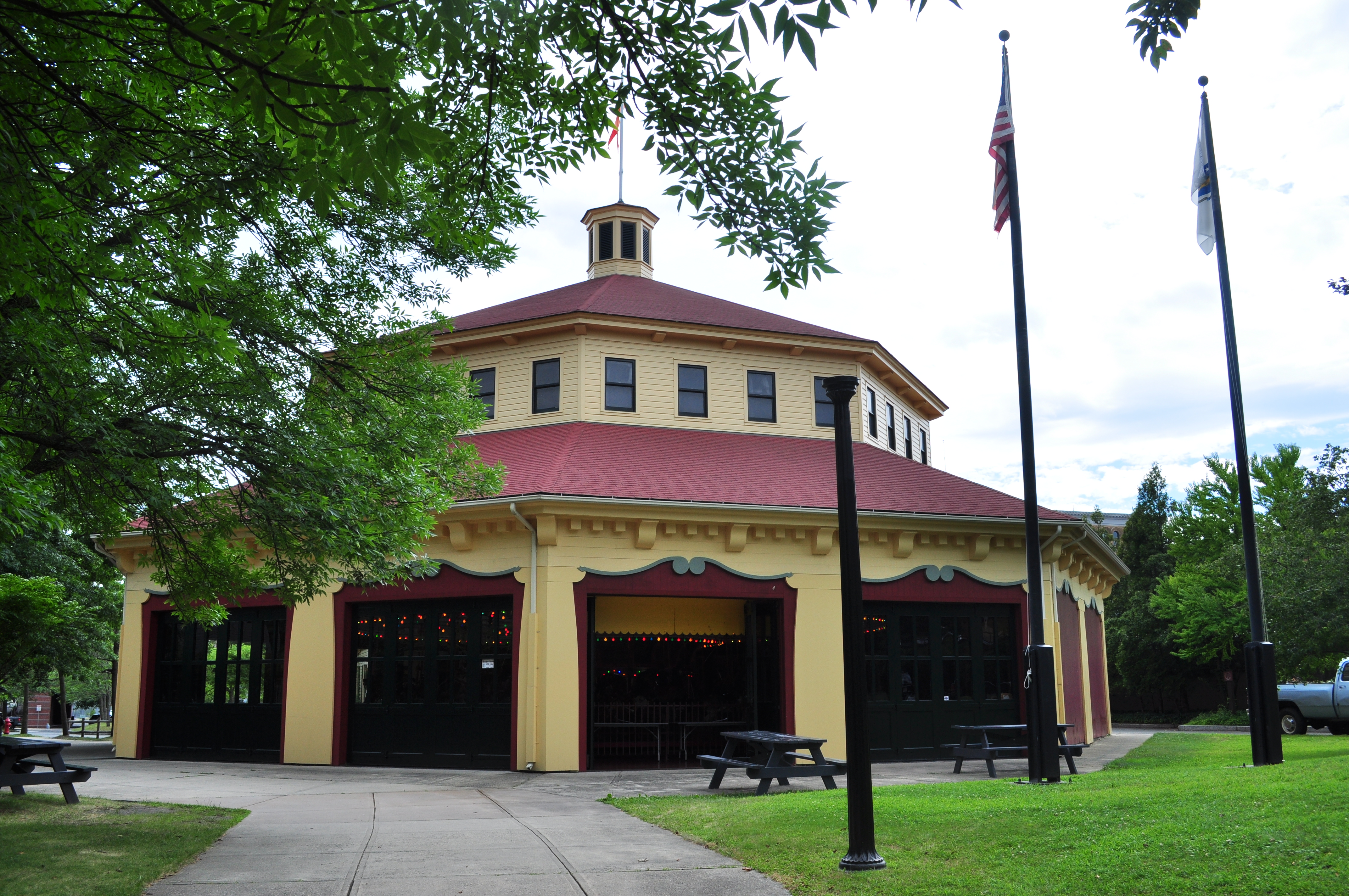 Holyoke Merry-Go Round carousel 01